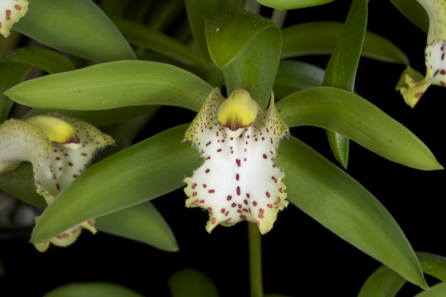 Species from India, the Himalayas, and east through China and Vietnam